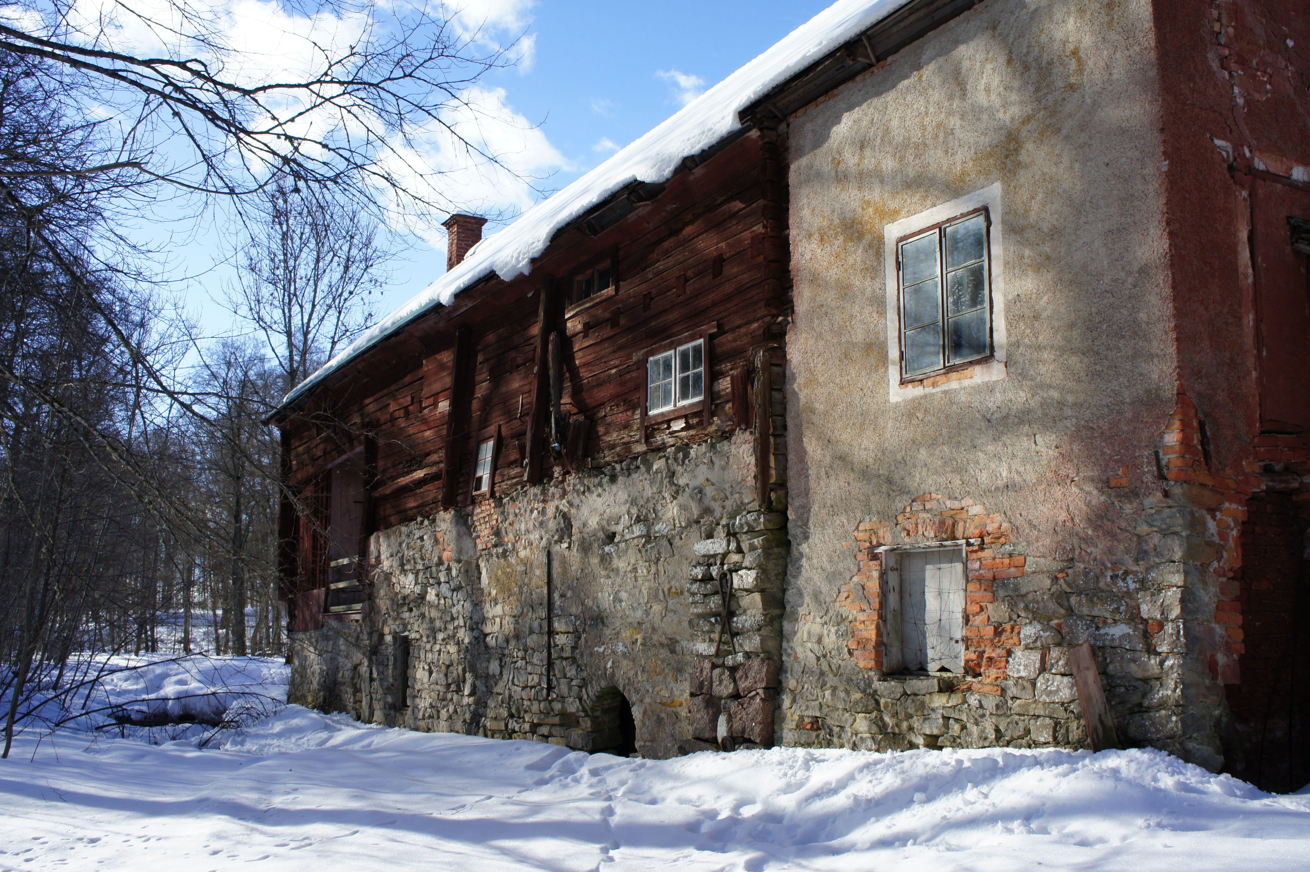 The old mill in Karlslund, Örebro, Sweden